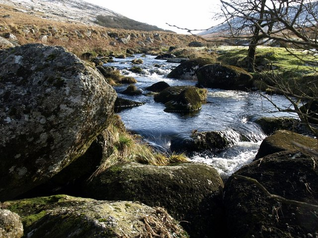 West Okement River. A stretch of the river a little upstream from 682872. In the distance is Black-a-tor Copse.